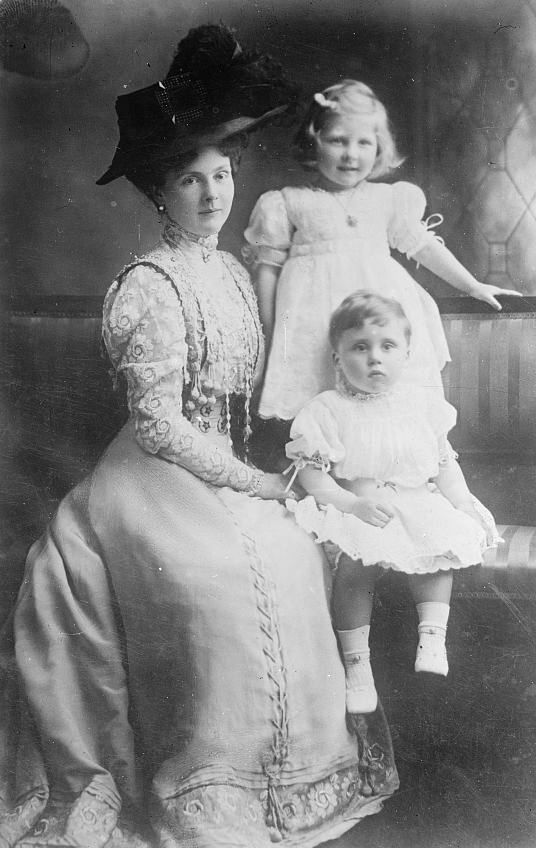 Princess Alice, Countess of Athlone (1883-1981) with her children May (1906-1994) and Rupert (1907-1928)